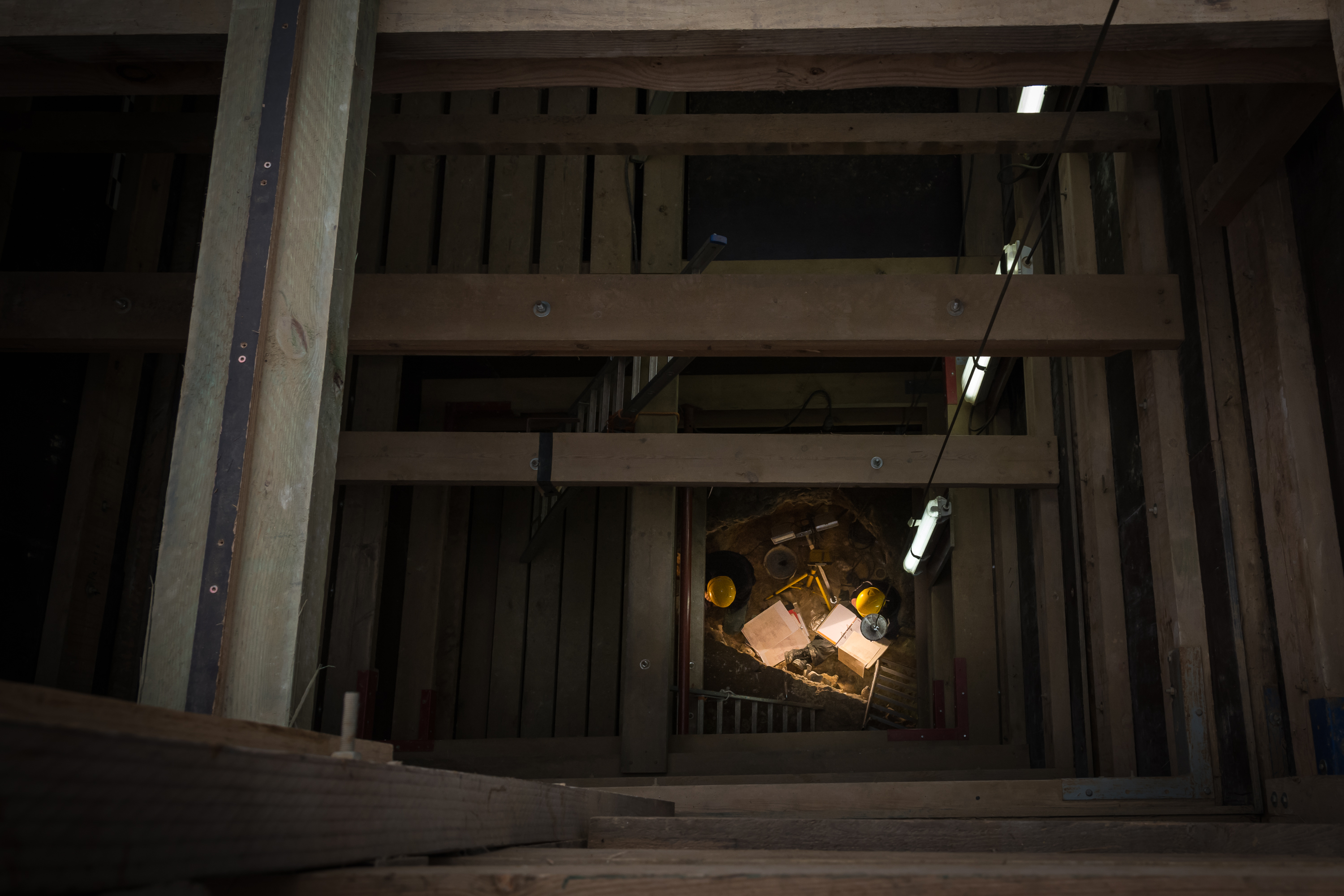 Neolithic Flint Mines at Spiennes